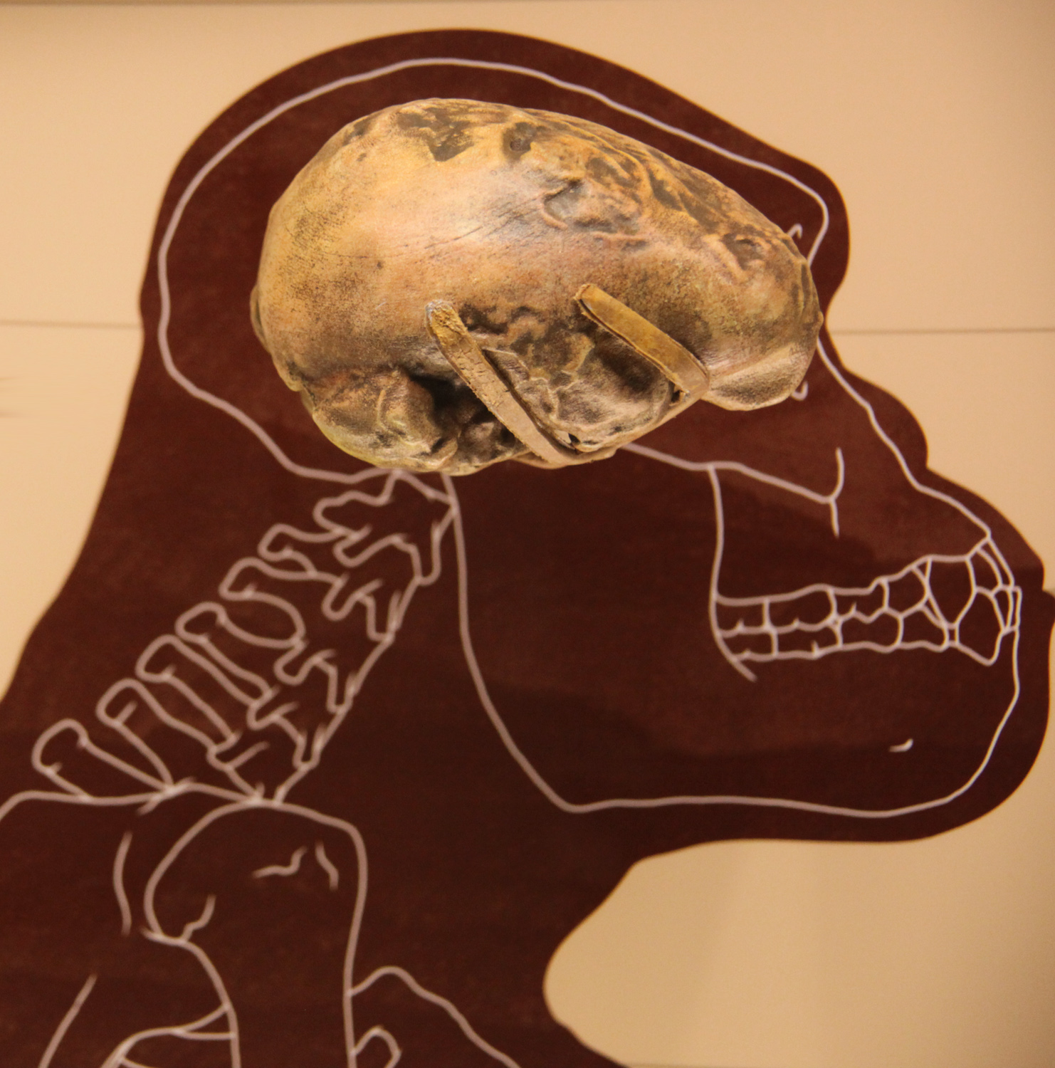 An endocast of the Australopithecus afarensis brain on display in the Hall of Human Origins in the Smithsonian Museum of Natural History in Washington, D.C. An endocast is where scientists fill the inside of a skull, and make a model of the brain. The brain and its blood vessels leave imprints on the inside of the skull. Because more advanced brains have smaller veins and many more folds and lobes, an endocast is very useful in determing how intelligent a human ancestor might have been, and what portions of its brain were more developed. Australopithecus afarensis is an extinct human ancestor that lived between 3.9 to 2.9 million years ago. Australopithecus afarensis was discovered in the Afar region of Ethiopia (hence the name "afarensis") in November 1973. The genus name, "Australopithecus", comes from the Latin word australis (or "southern") and the Greek word pithekos ("ape").